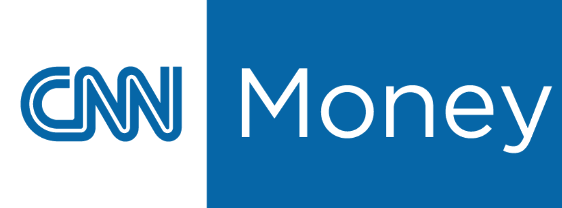 This is the logo of the financial news source, CNNMoney.